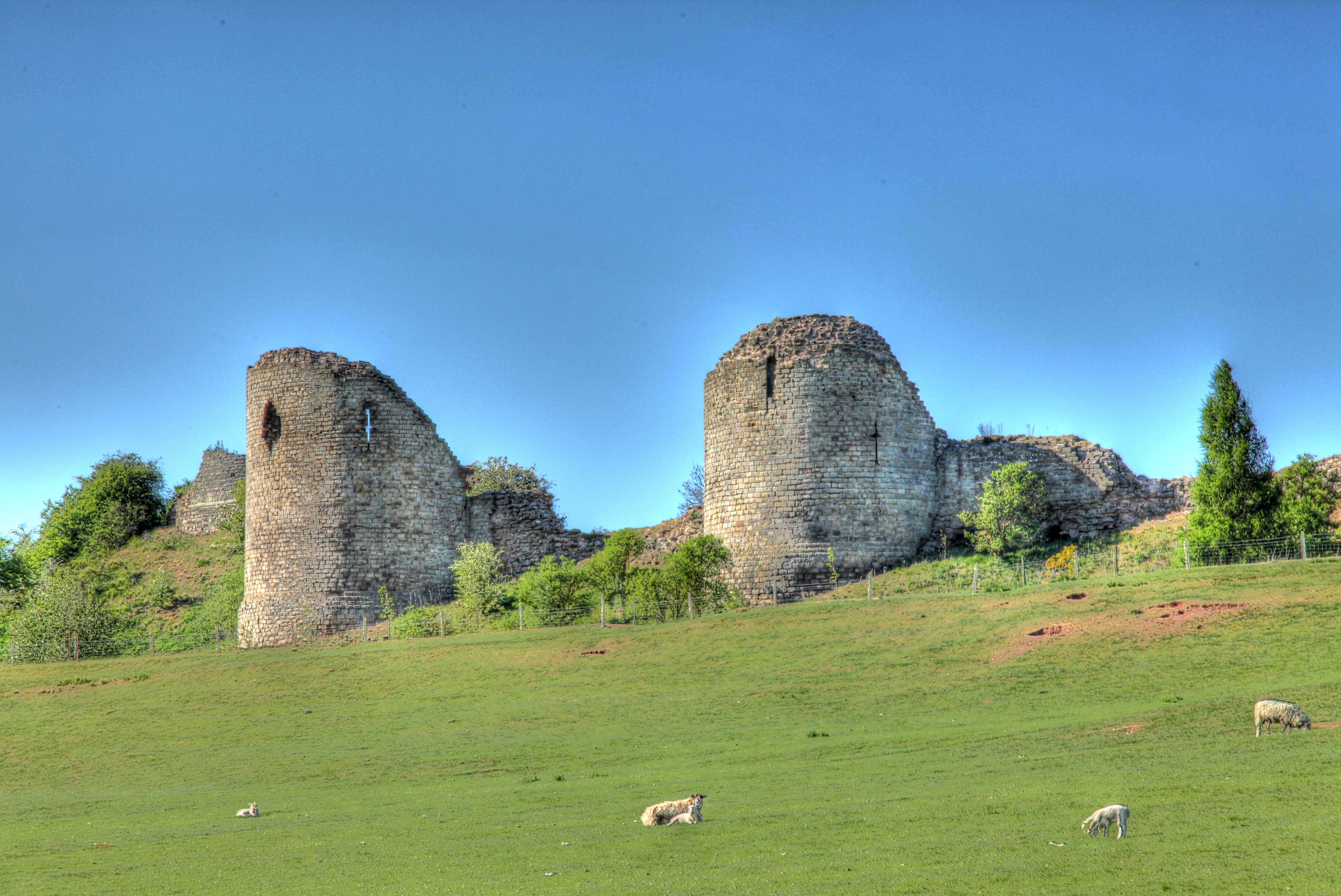 Chartley castle ruins to the north of the village of Stowe-by-Chartley in Staffordshire, between Stafford and Uttoxeter, England